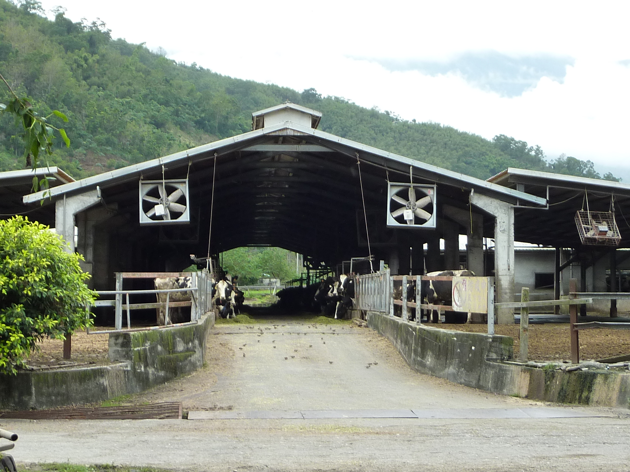 自己拍攝